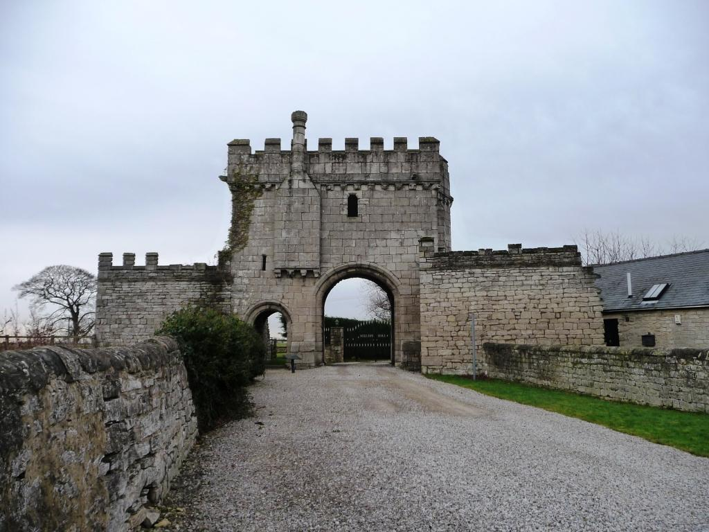 Steeton Hall Gateway [or Steeton Gatehouse]